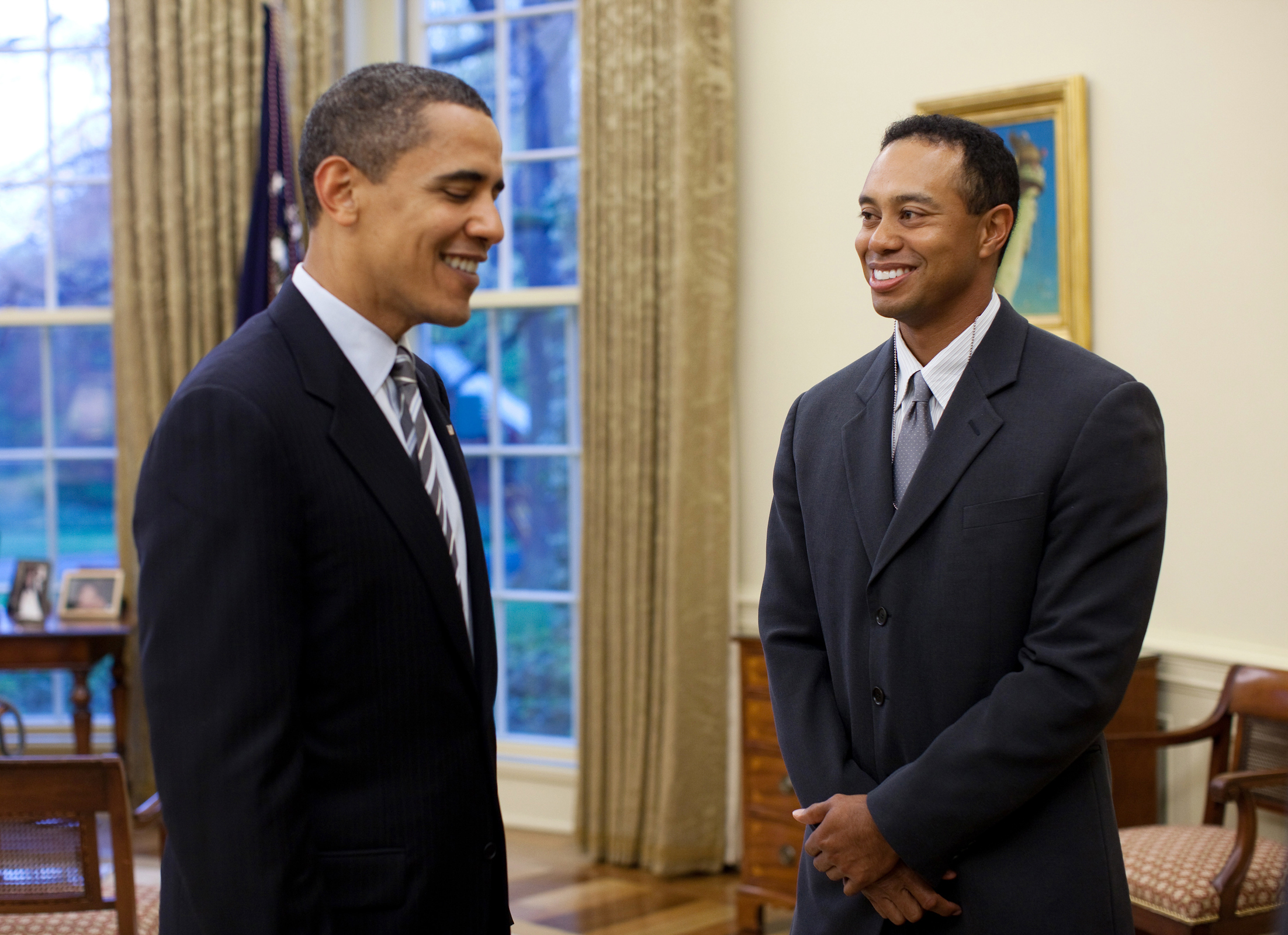 President Barack Obama greets professional golfer Tiger Woods in the Oval Office Monday, April 20, 2009. The 14-time major winner visited the White House Monday following a press conference for the AT&T National, the PGA Tour event Woods hosts at Congressional Country Club June 29-July 5.